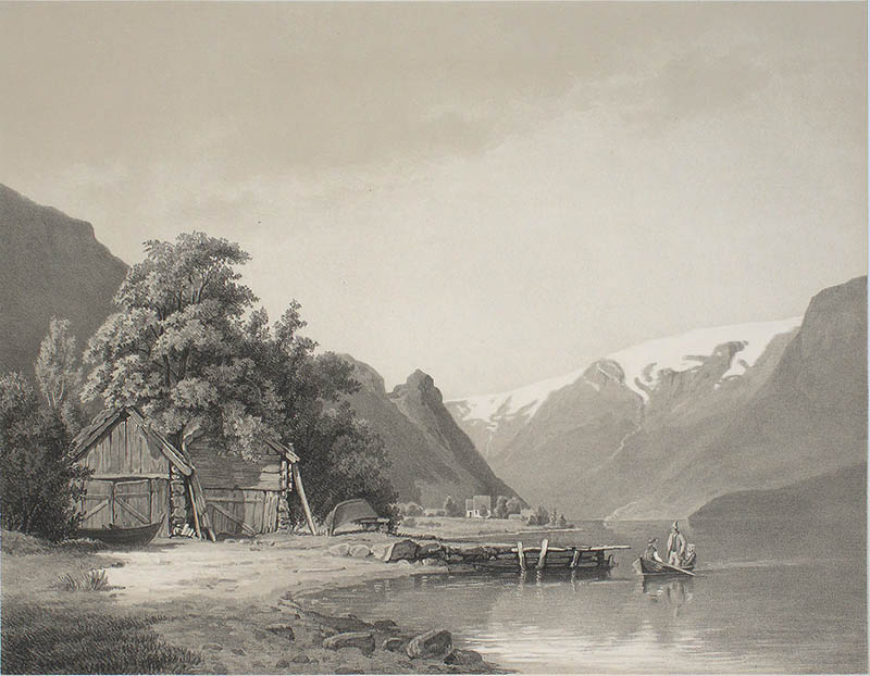 Pictures from the work "Norge fremstillet i Tegninger" from 1848 by Christian Tønsberg.